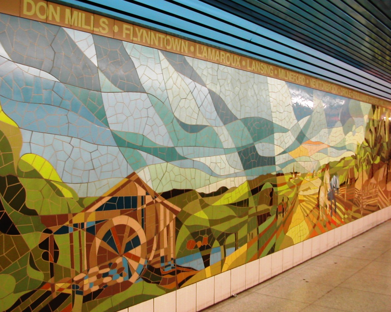 A photograph by User:PFHLai of the mural "Top Of The North Hill, 1850s" at the North York Centre (TTC) station, Toronto.